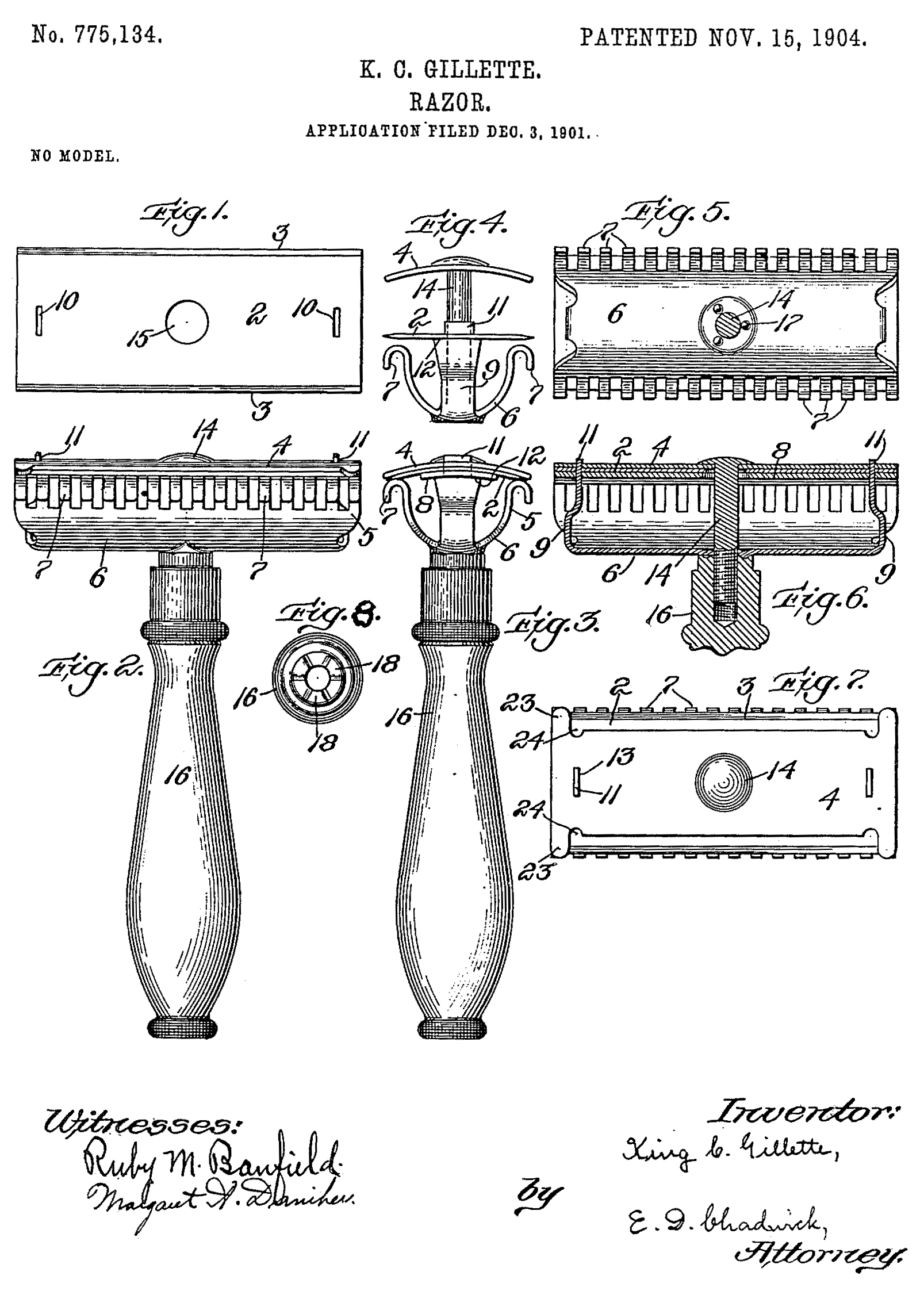 Front page of Gillette's razor patent.